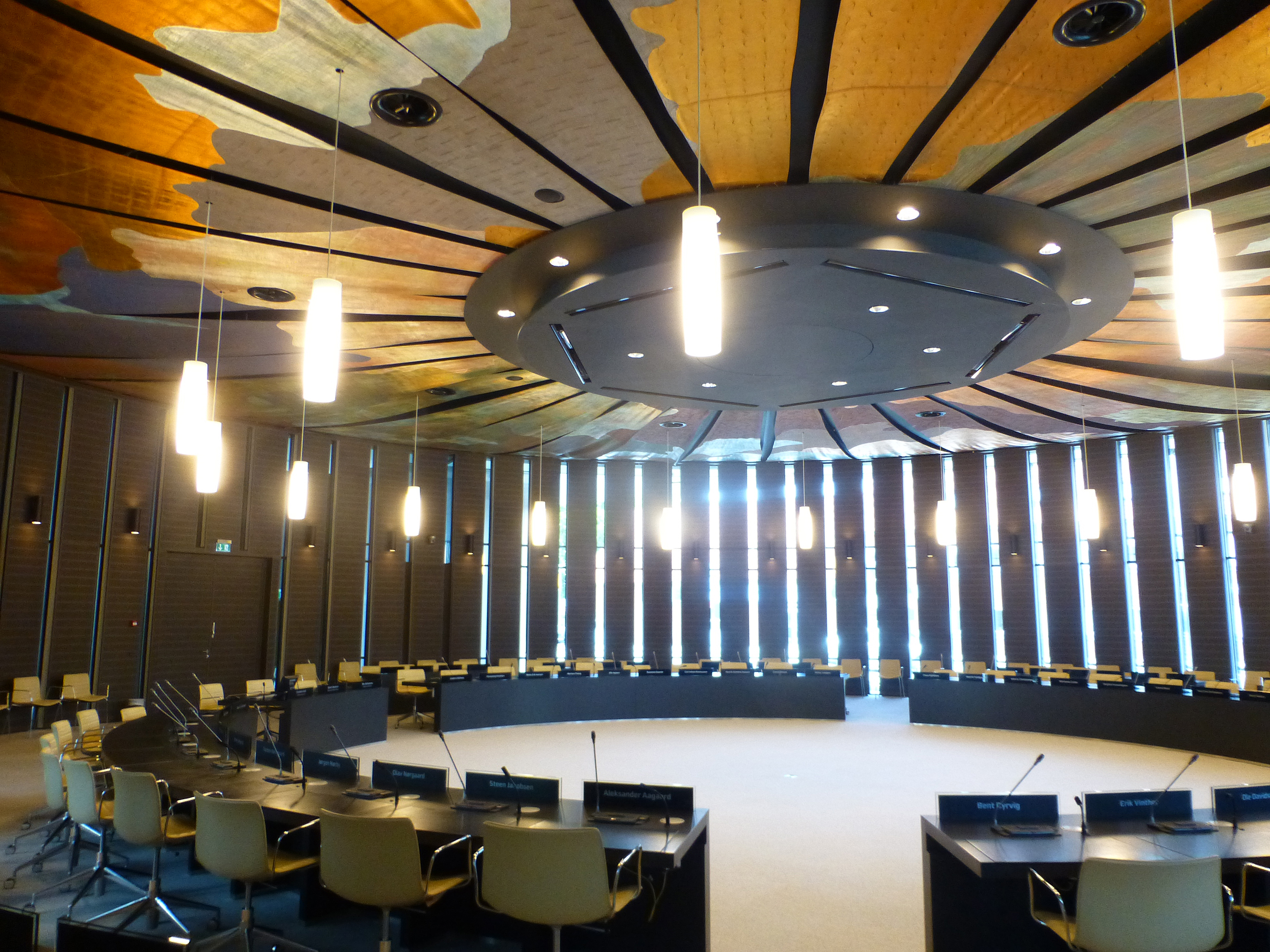 The conference room of the Mid Jutland Regional Council, Viborg, Denmark.